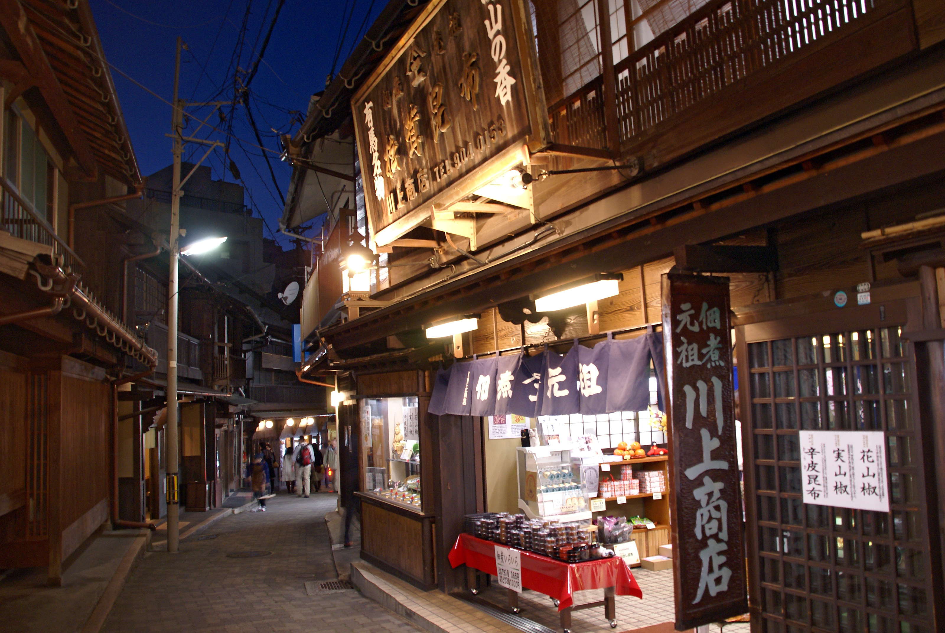 Yumotozaka-Street of Arima onsen in Kobe, Hyogo prefecture, Japan